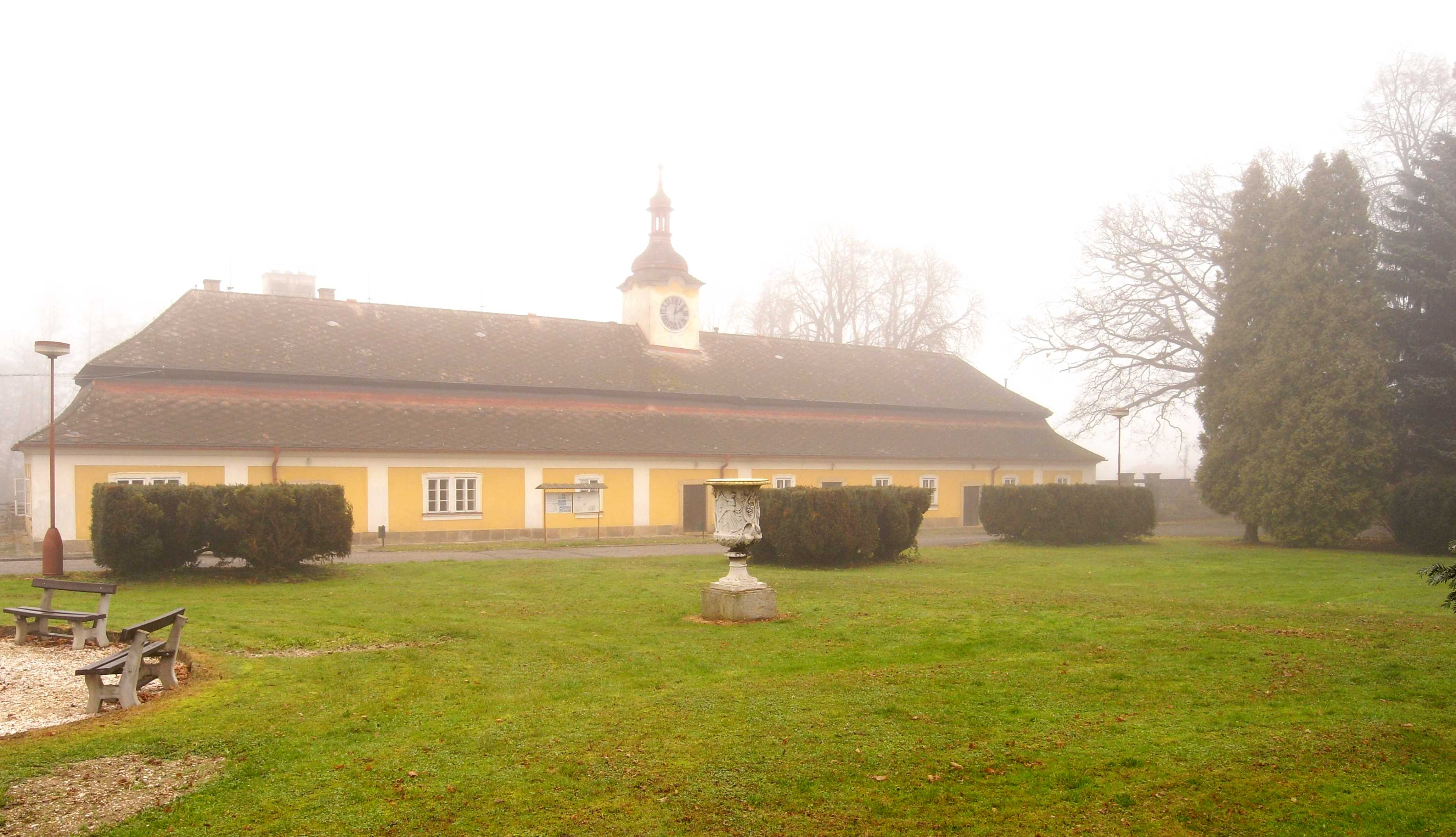 castle Bílé Poličany (Czech Republic), neighbouring building